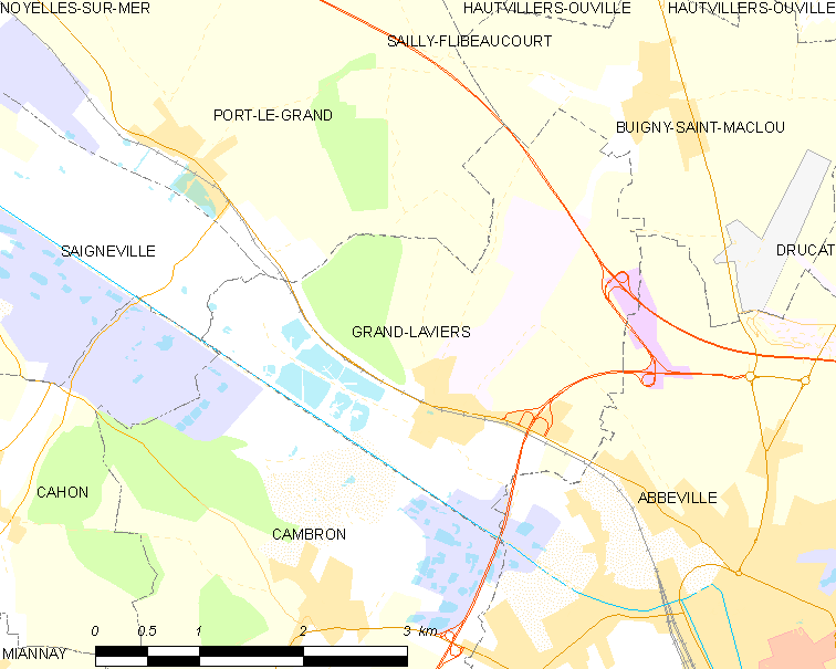 Map of French municipality Grand-Laviers